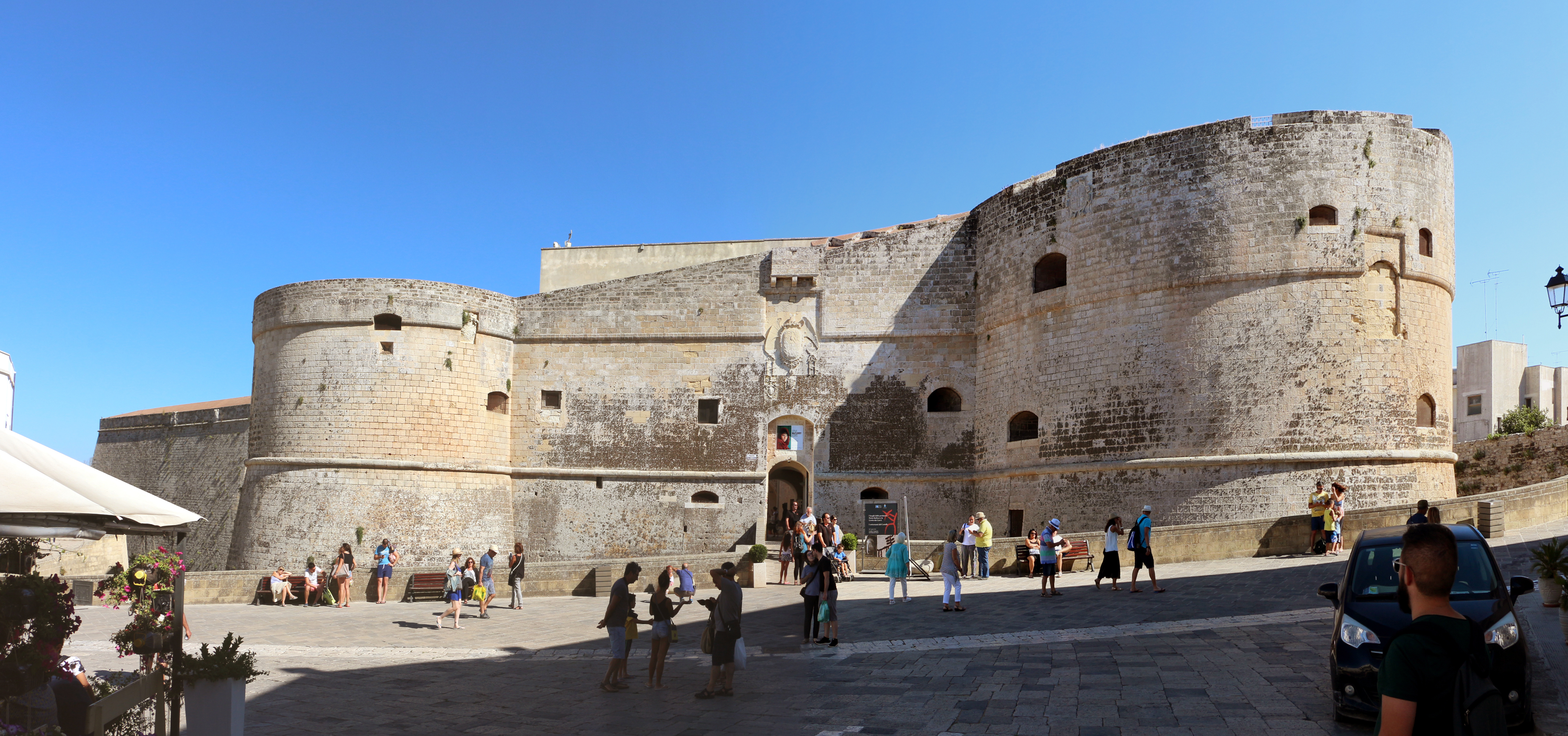 Castello di Otranto